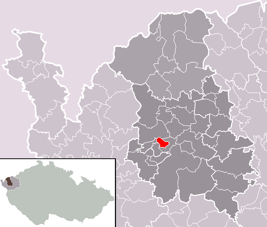 Location of Bukovany municipality within Sokolov District and administrative area of Sokolov as a Municipality with Extended Competence.